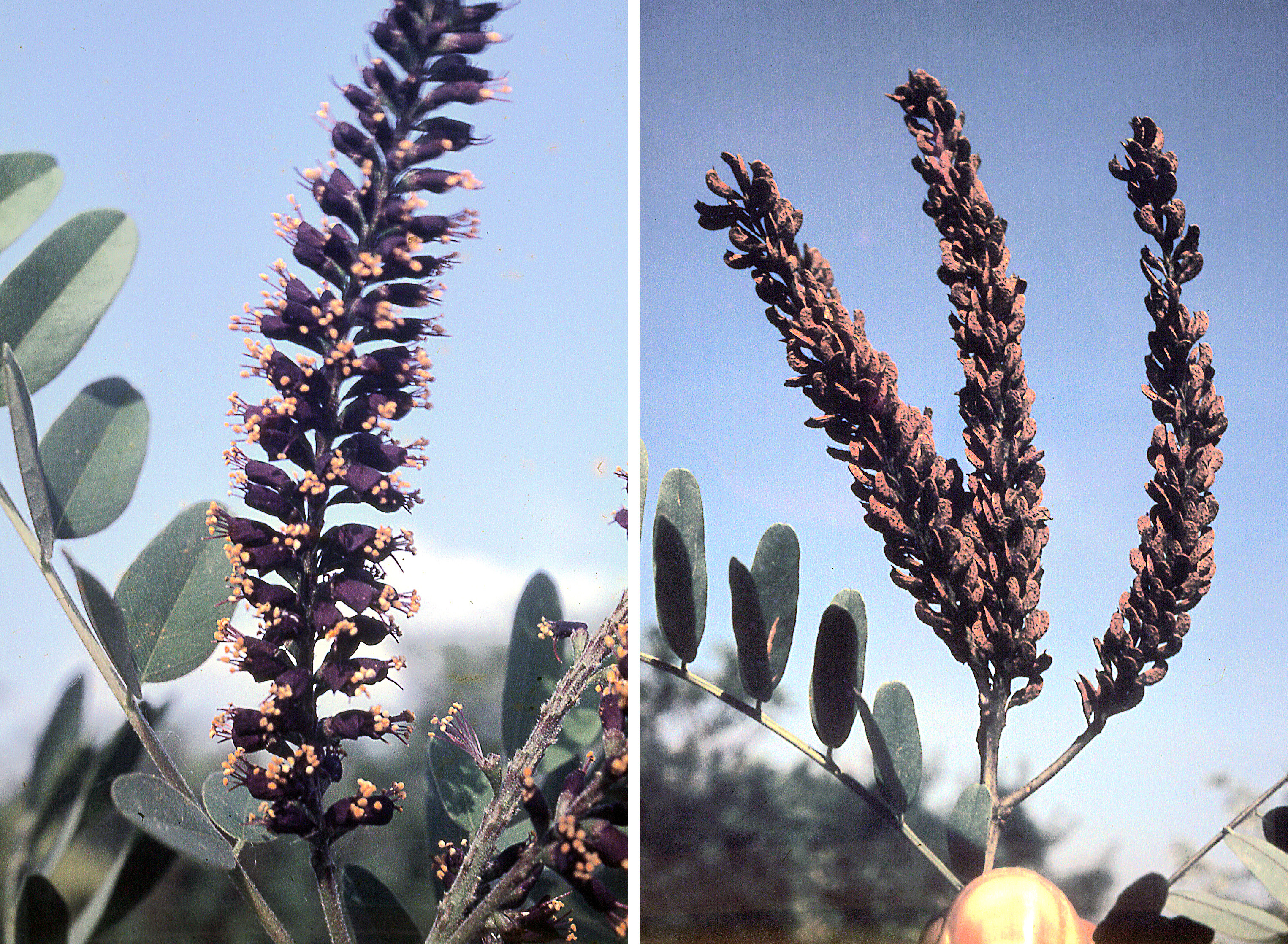 Amorpha fruticosa flowers and legumes.